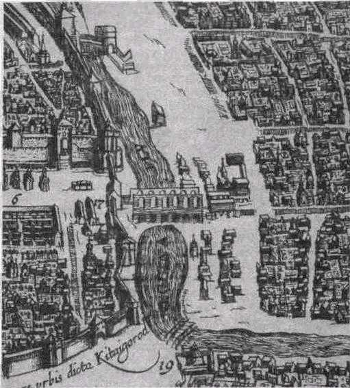 Fragment of the plan of Moscow in 1610.